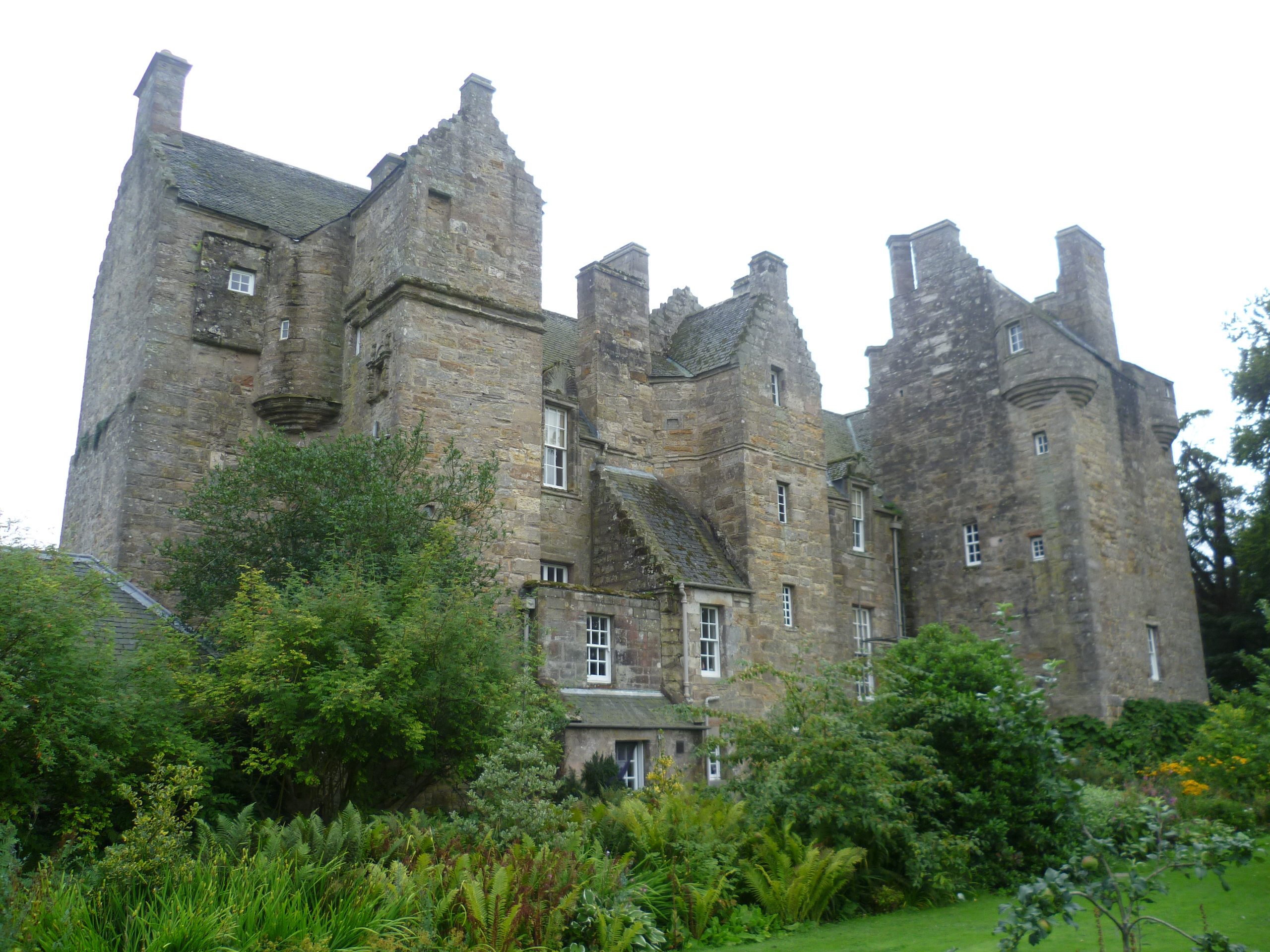 Kellie Castle (rear view), Fife, Scotland